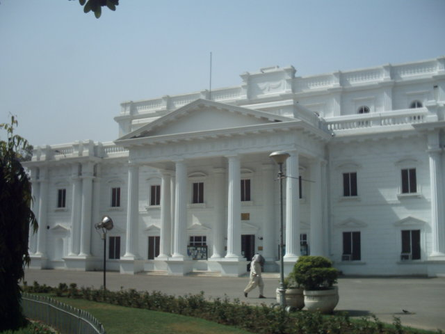 The Quaid-e-Azam Library in Lawrence Garden Picture taken by Pale blue dot on June 4, 2004. This magnificent building is the Quaid-e-Azam Library in Lawrence Garden, Lahore, Pakistan. The Urdu phrase 'Quaid-e-Azam' means chief leader. And it is used in Pakistan solely for one person - Muhammad Ali Jinnah. The Lawrence Garden's official new name is 'Bagh-e-Jinnah', which in Urdu means Jinnah Garden. Most Lahoris (people living in Lahore), still call Jinnah Garden, Lawrence Garden, even though that is no longer its official name.